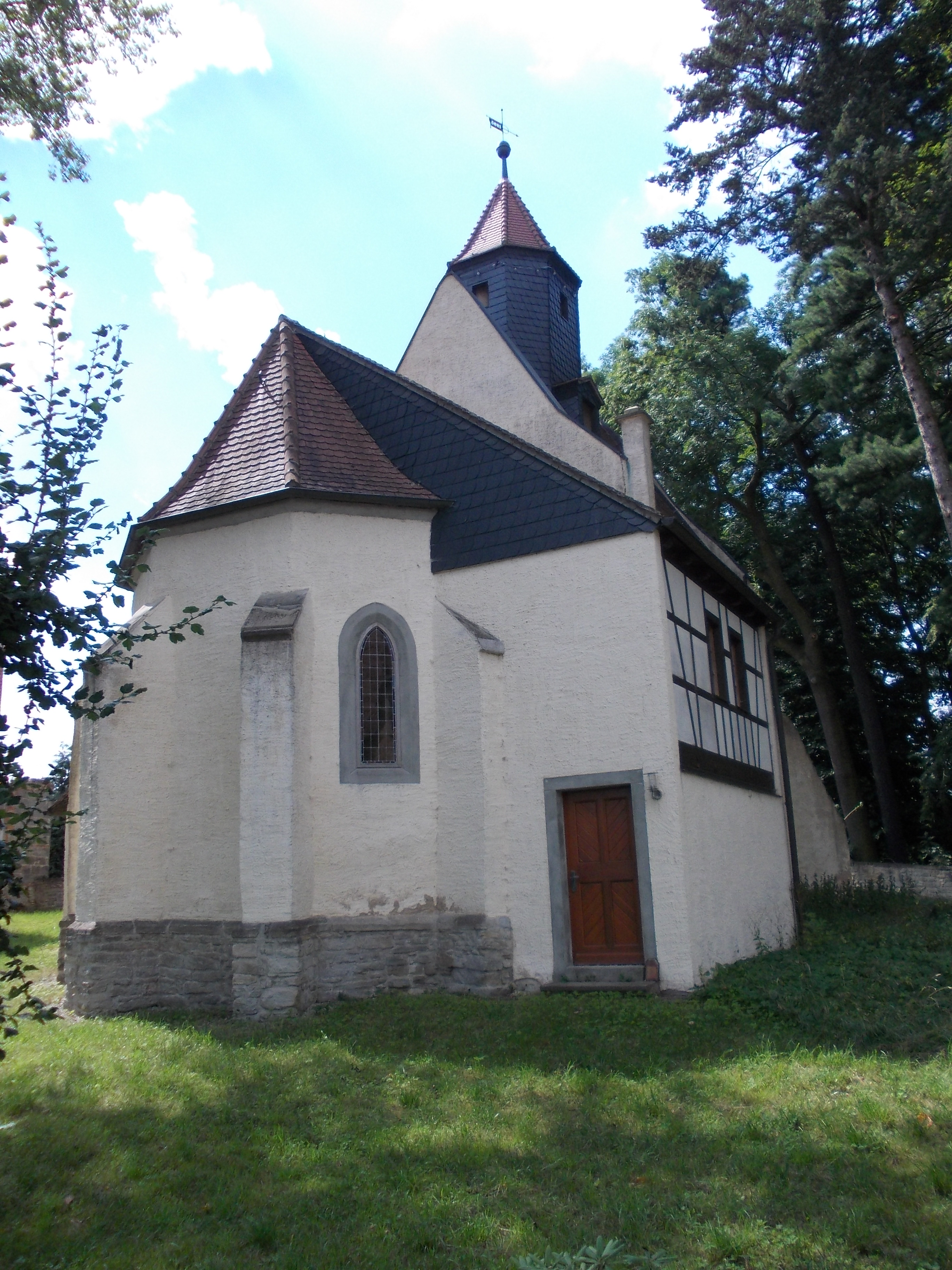 Wittgendorf church (Schnaudertal, district: Burgenlandkreis, Saxony-Anhalt)